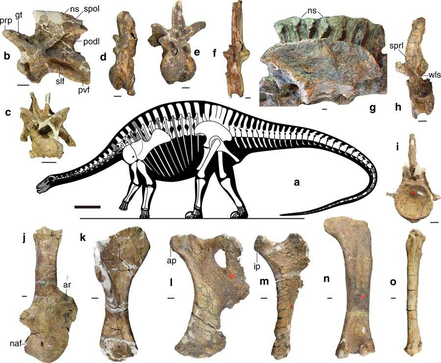 Skeletal reconstruction and exemplar skeletal remains of Lingwulong shenqi. Silhouette showing preserved elements (a); middle cervical vertebra in left lateral (b) and anterior (c) views; anterior dorsal vertebra in left lateral (d) and anterior (e) views; posterior dorsal vertebra in lateral view (f); sacrum and ilium in left lateral view (g); anterior caudal vertebra in left lateral (h) and anterior (i) views; right scapulocoracoid in lateral view (j); right humerus in anterior view (k); left pubis in lateral view (l); right ischium in lateral (m) views; right femur in posterior view (n); and right tibia in lateral view (o). Abbreviations: ap, ambiens process; ar, acromial ridge; ip, iliac peduncle; naf, notch anterior to glenoid; np, neural spine; podl, postzygodiapophyseal lamina; ppr, prezygapophyseal process ridge; prp, prezygapophysis; pvf, posteroventral fossa; slf, shallow lateral fossa; spol, spinopostzygapophyseal lamina; sprl, spinoprezygapophyseal lamina; wls, wing-like structure. Scale bars = 100 cm for a and 5 cm for b–o